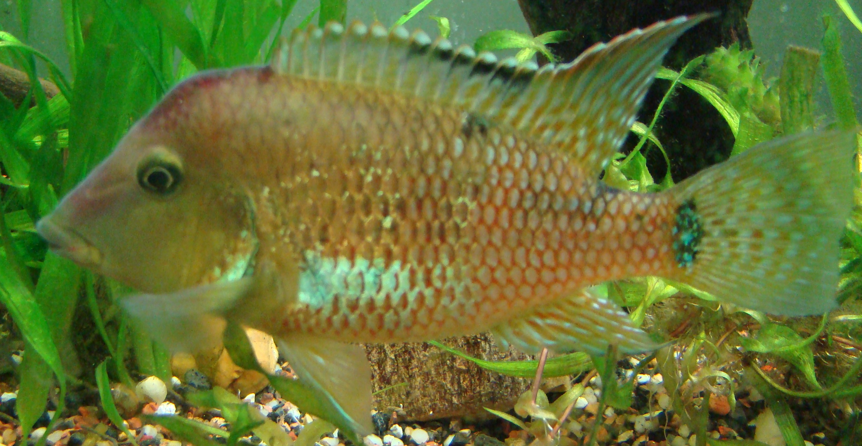 Red Hump Eartheater Geophagus steindachneri Eigenmann & Hildebrand